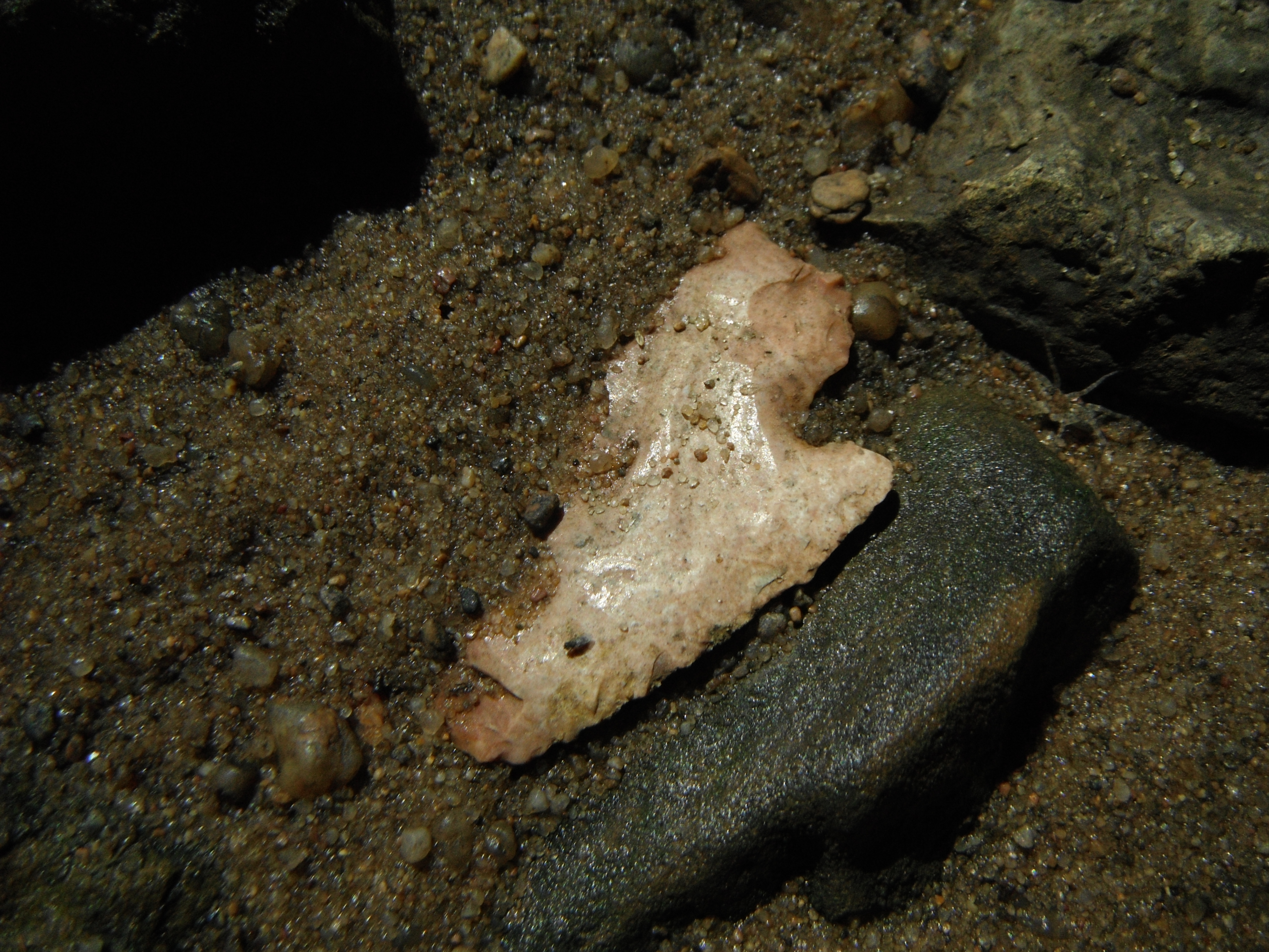 Insitu picture of Calf Creek atlatl dart made from heat-treated Florence-A (or Kay County) chert. Found on the ancient Arkansas River in Northeast Oklahoma near Sand Springs by Noah Benzing, just outside of Tulsa. Night hunt with LED headlamps.